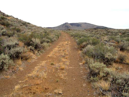 Goodale's Cutoff, Craters of the Moon National Monument, Idaho, USA